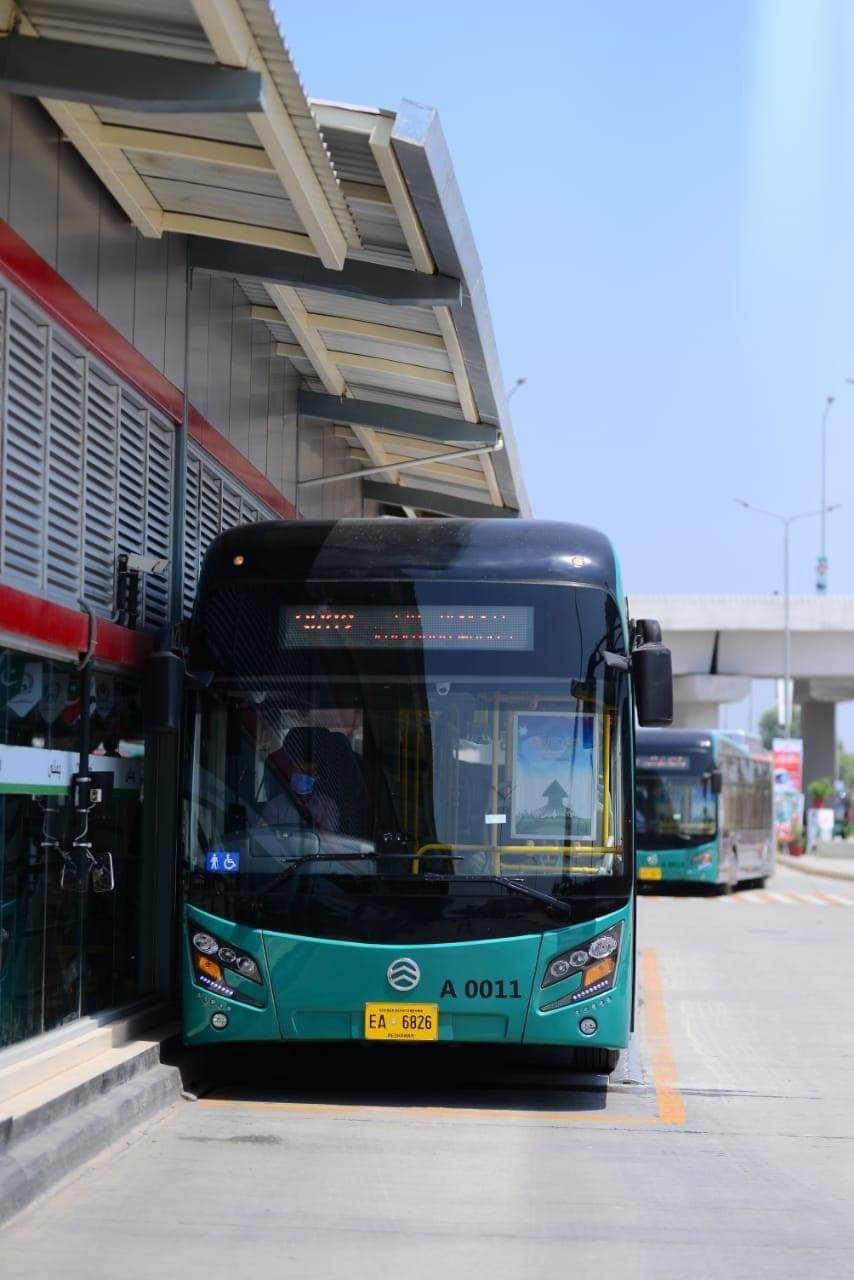 Peshawar BRT Buses and Station